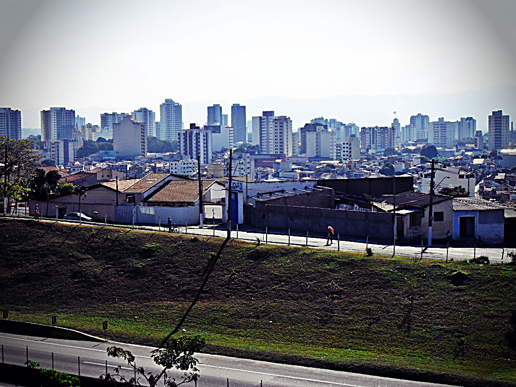 Centro de Taubaté